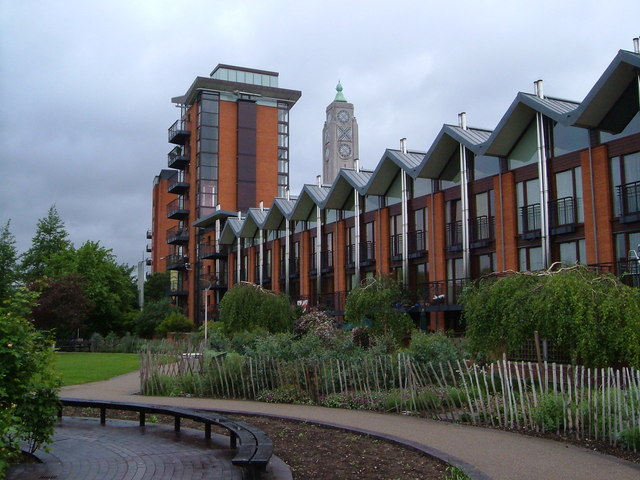 Oxo Tower from Bernie Spain Gardens. With the housing on Broadwall in between.